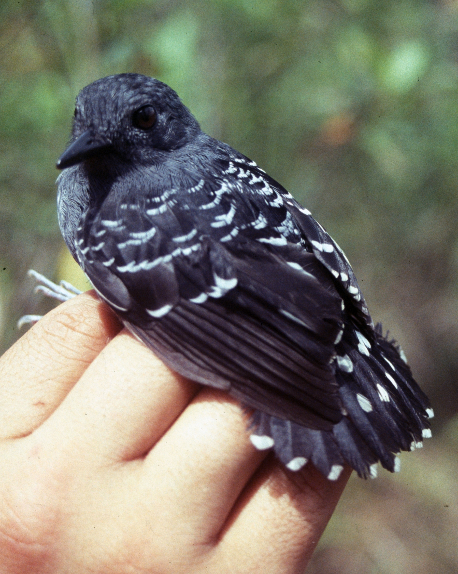 Scale-backed Antbird (Willisornis poecilonotus). A male photographed in Cordillera del Cóndor, Ecuador.